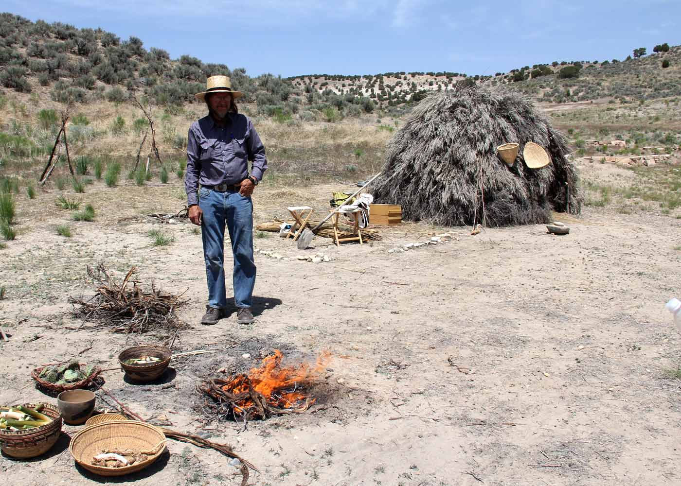 Retired BLM archaeologist Tim Murphy constructed a replica Shoshone village and demonstrated cooking staples and techniques of the Great Basin Native Americans. The Shoshone village was located outside the California Trail Interpretive Center on a bluff overlooking the original Trail site. The Grand Opening of the California Trail Interpretive Center to year-round operations was held June 2 and kicked off the 9th Annual California Trail Days for the weekend. More than 1,200 visitors from 18 states and one foreign country attended Trail Days this year.